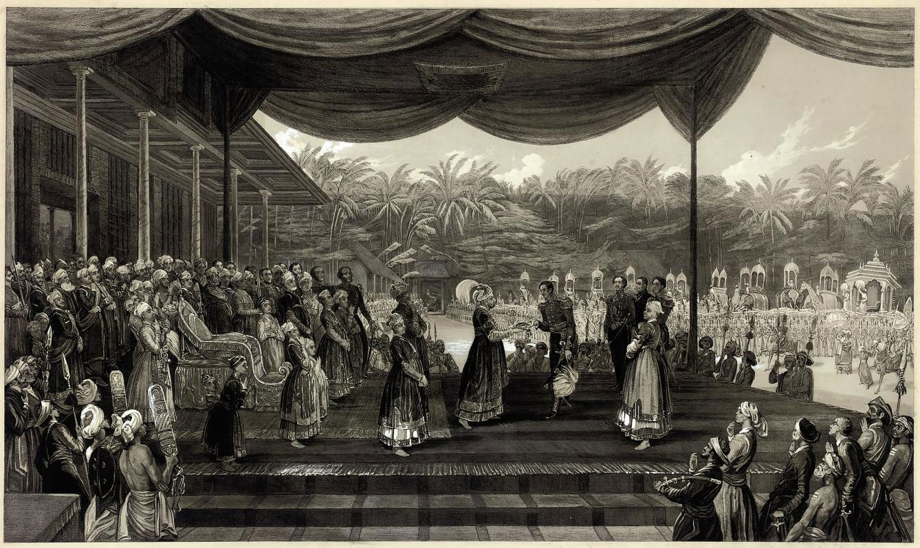 The Durbar of His Highness the Maha Raja of Travancore, for the Reception by His Highness the Maha Raja, of Her Majesty Queen Victoria's letter 27th November 1851; with the descriptive key plate of the Durbar